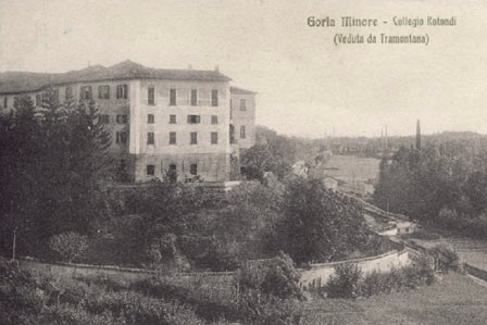 Gorla Minore, Collegio Rotondi